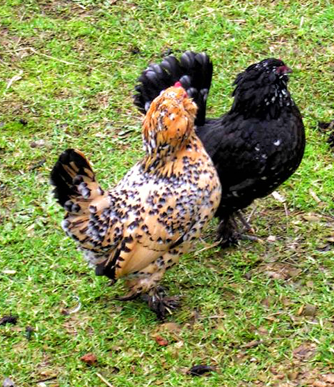 Belgian d'Uccle Bantams in the Millie Fleur and Black Mottled colors.